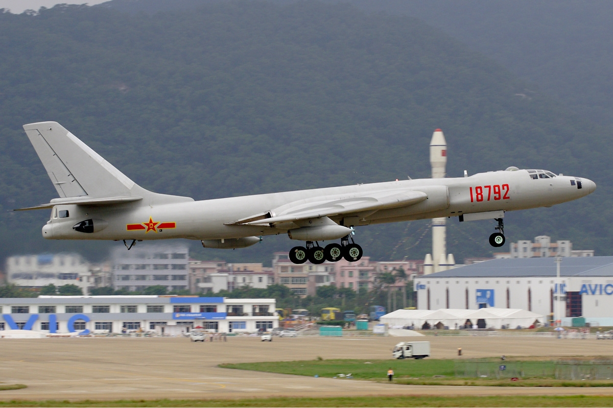 People's Liberation Army Air Force Xian HY-6 at Zhuhai Airshow